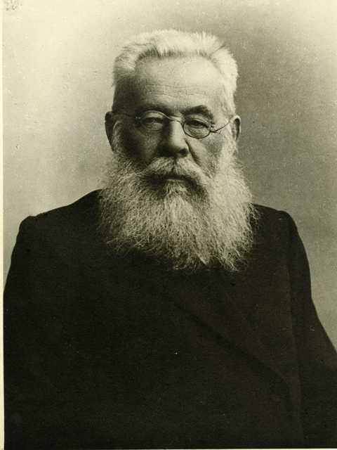 Evgeniy Golubinsky (1834-1912)